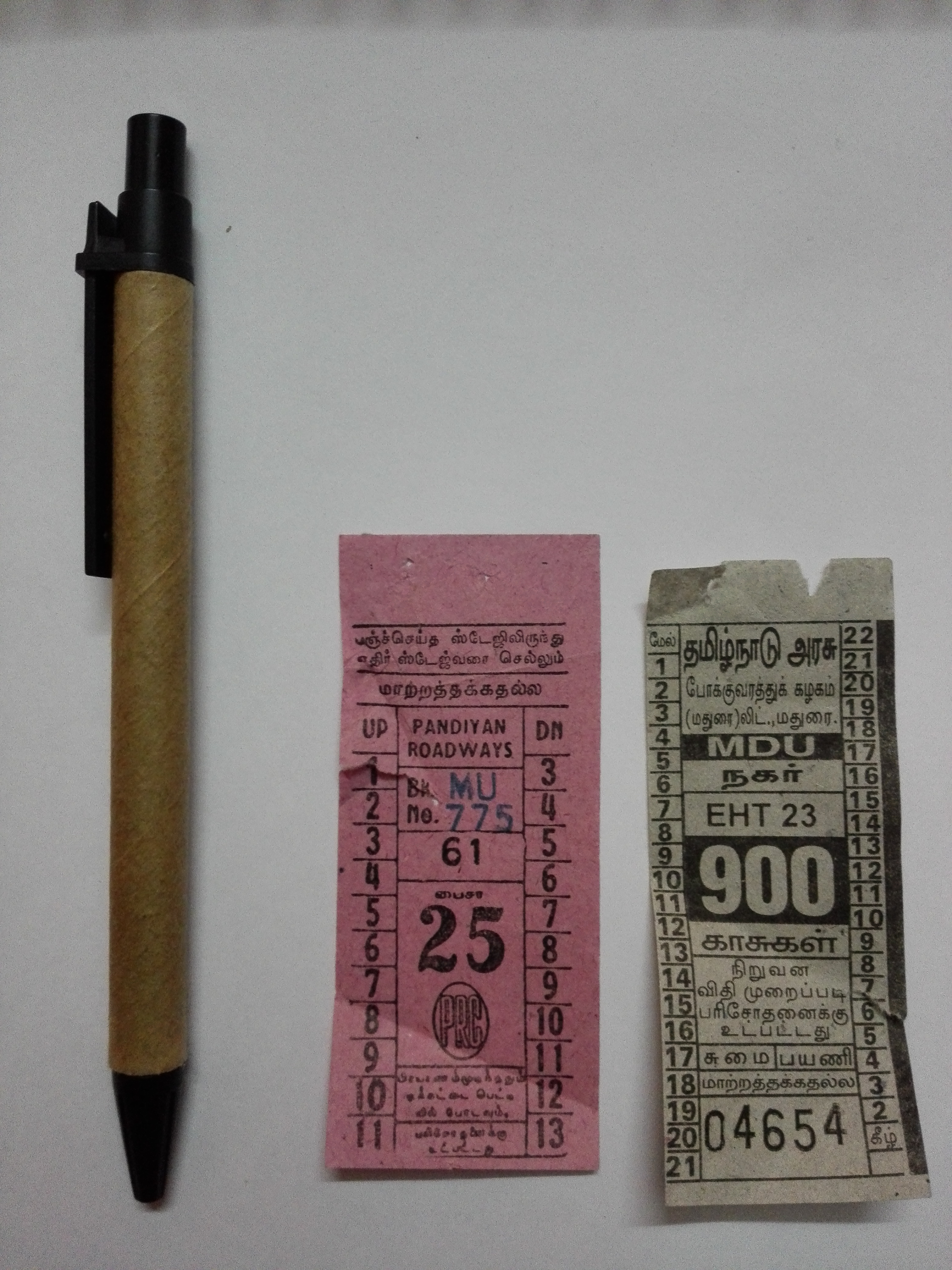 A town bus ticket of 25 paise denomination of one of the State Transport Undertakings of Tamil Nadu named Pandiyan Roadways Corporation headquartered at Madurai. (PRC is now called Tamil Nadu State Transport Corporation (Madurai) Ltd.) It might have been issued between 1976 and 1981. A ticket issued in October 2015 is on the right side for comparison. Such tickets are still in use alongside slips issued using electronic ticketing machines. "Valid up to stage opposite to punched stage" and "After the journey, drop the ticket in the box" comments have now been discarded. Provision to differentiate passenger versus luggage is available in the modern ticket.